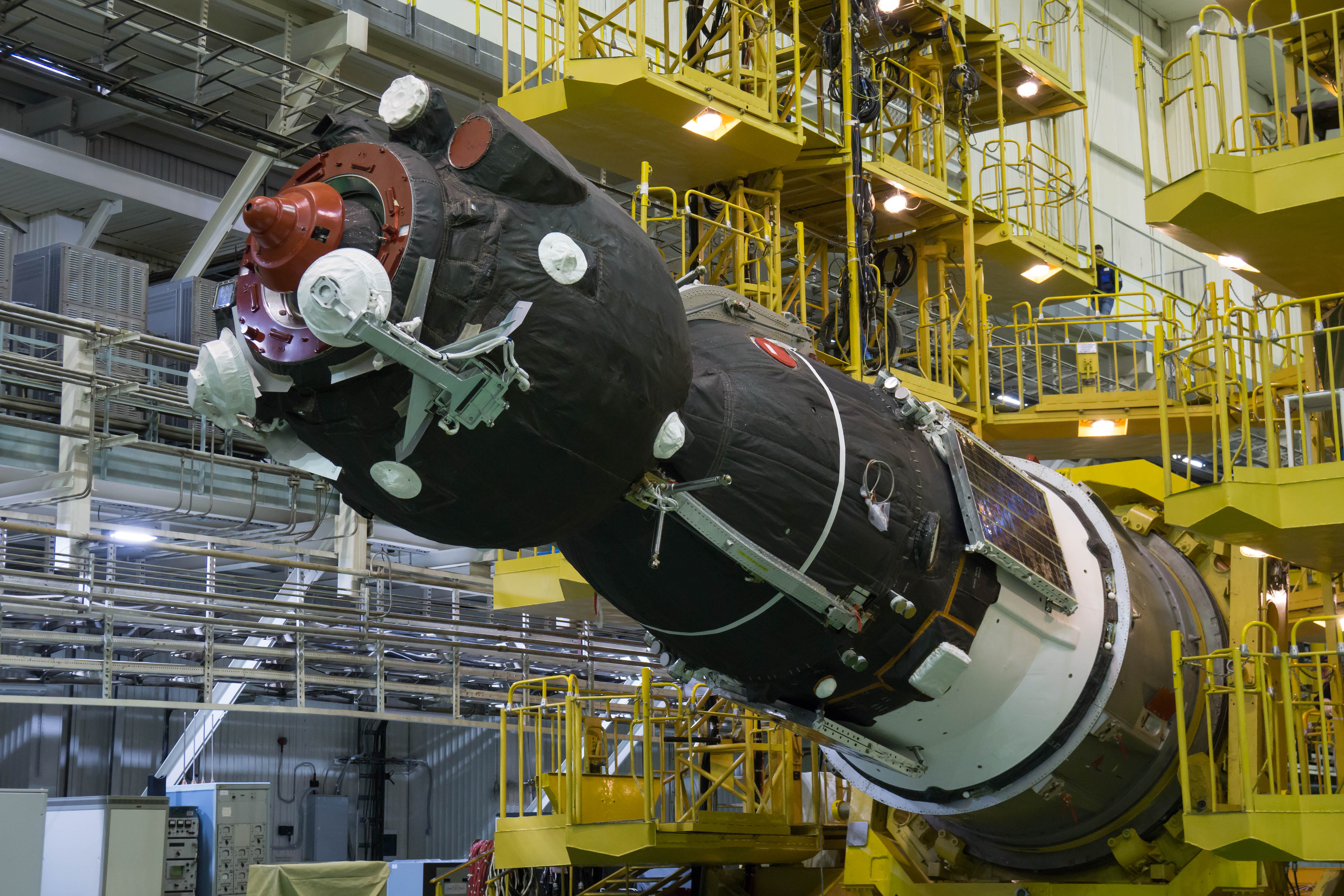 In the Integration Facility at the Baikonur Cosmodrome in Kazakhstan, the Soyuz MS-08 spacecraft is rotated to a horizontal position March 14 to be encapsulated in the upper stage of a Soyuz booster rocket. Expedition 55 crewmembers Drew Feustel and Ricky Arnold of NASA and Oleg Artemyev of Roscosmos will launch in the Soyuz March 21 for a five-month mission on the International Space Station.